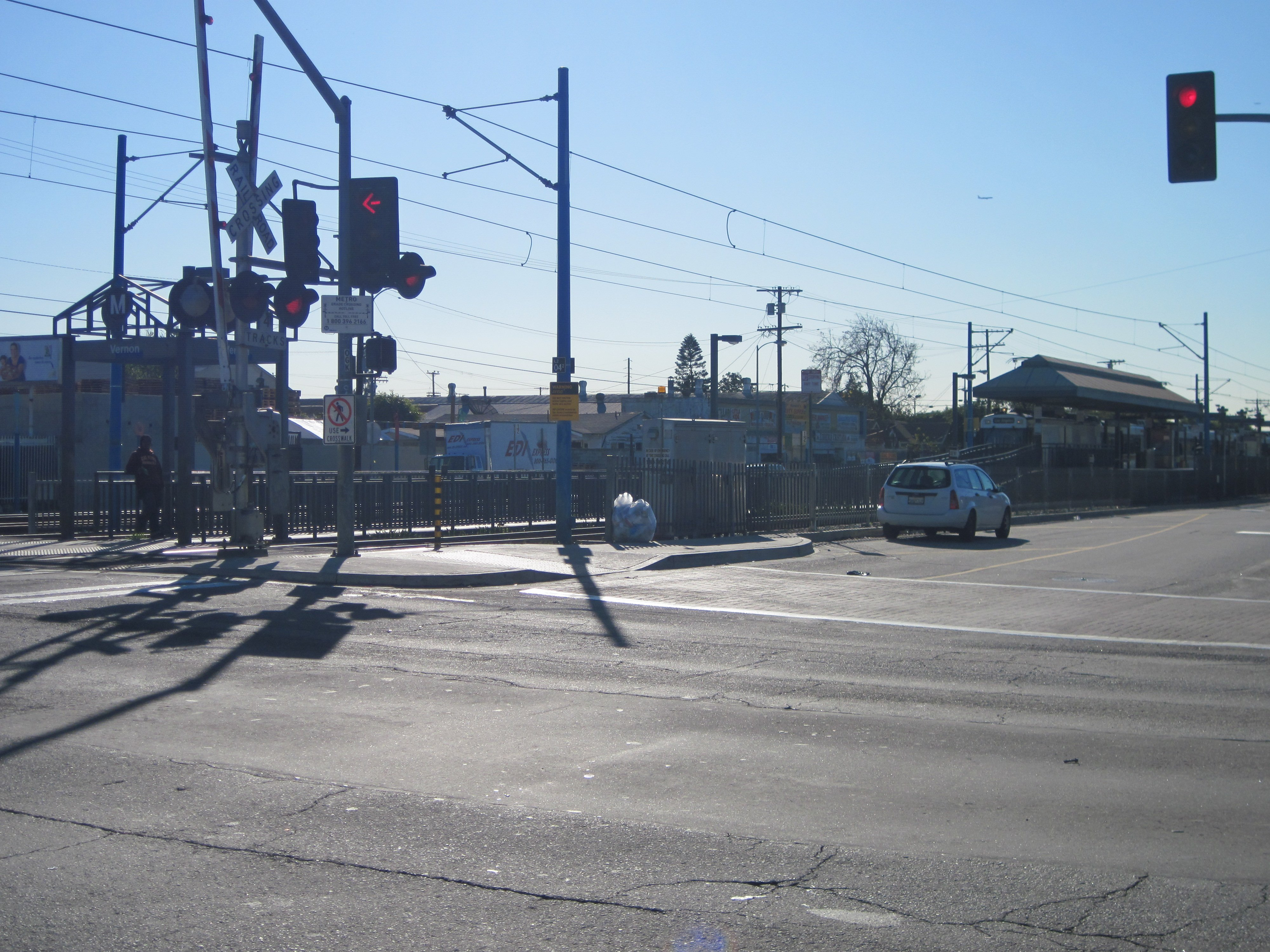 The Los Angeles County Metropolitan Transportation Authority's Vernon station, serving the Metro Blue Line in Los Angeles, California, USA.